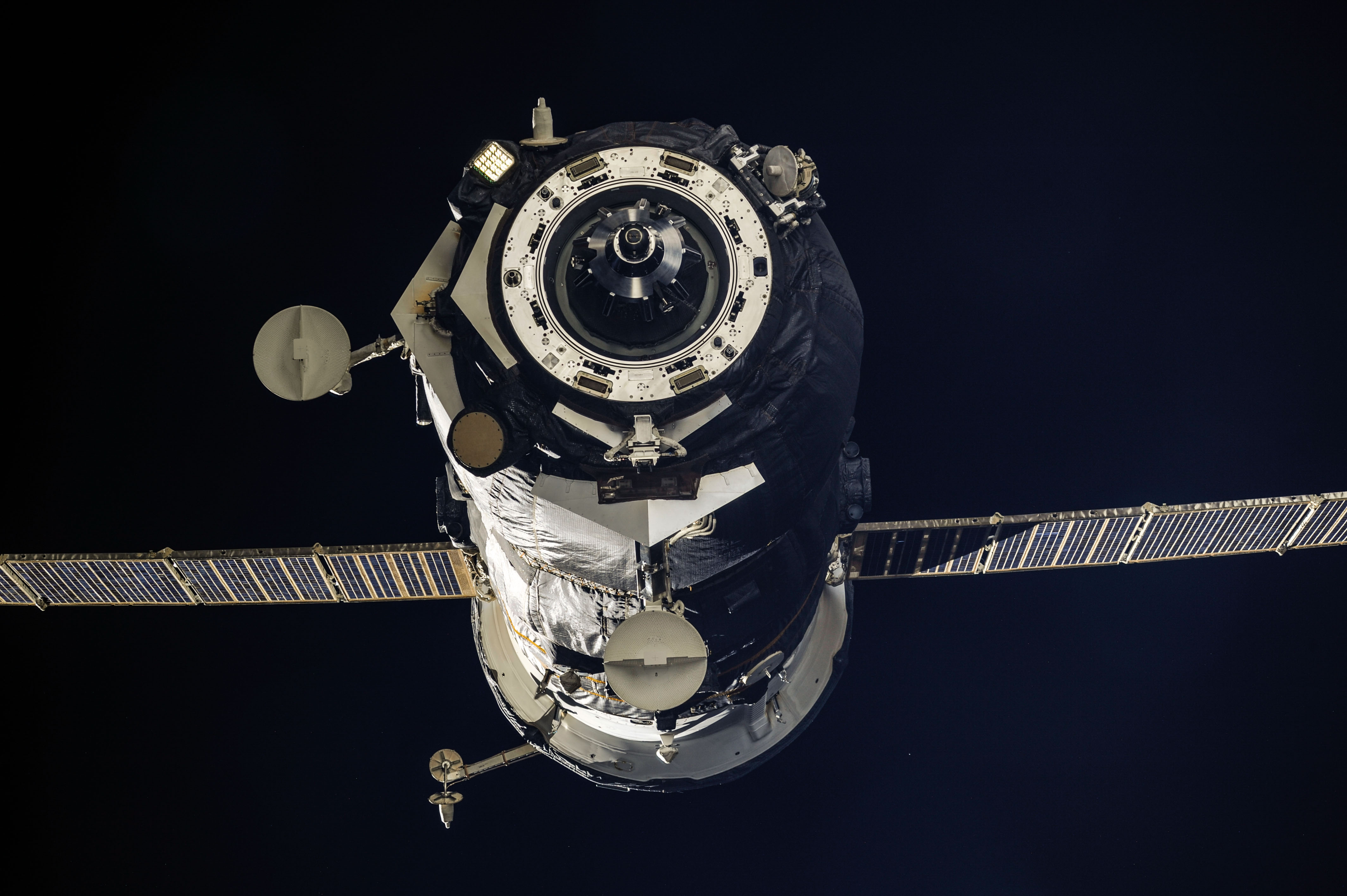 The unpiloted Russian ISS Progress 50 (50P) resupply ship undocks from the International Space Station's Pirs Docking Compartment at 4:43 p.m. (EDT) on July 25, 2013. The Progress 50 deorbited over the Pacific Ocean a few hours later for a fiery destruction. An ISS Progress 52 is set to replace the 50P when it launches at 4:45 p.m. on July 27 from the Baikonur Cosmodrome in Kazakhstan.